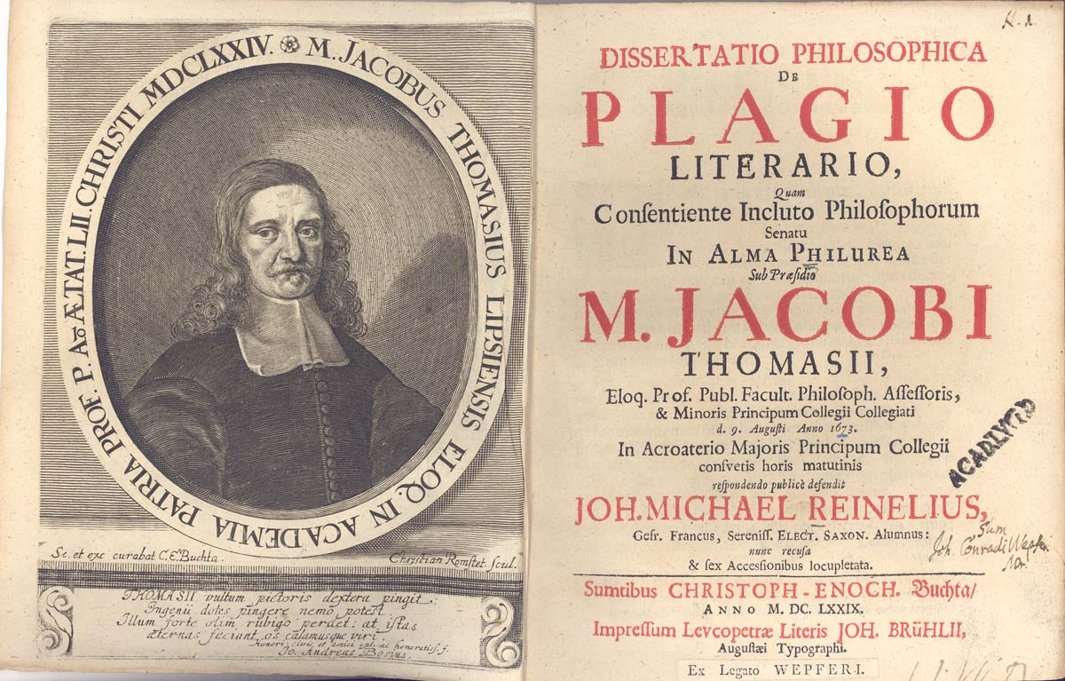 Jacobus Thomasius (praeses) & Joh. Michael Reinelius (respondens): Dissertatio philosophica de plagio literario. Dissertation Leipzig, 1679. Legacy Joh. Conr. Wepfer (Ex legato Wepferi). Collection Leiden University Library (The Netherlands)